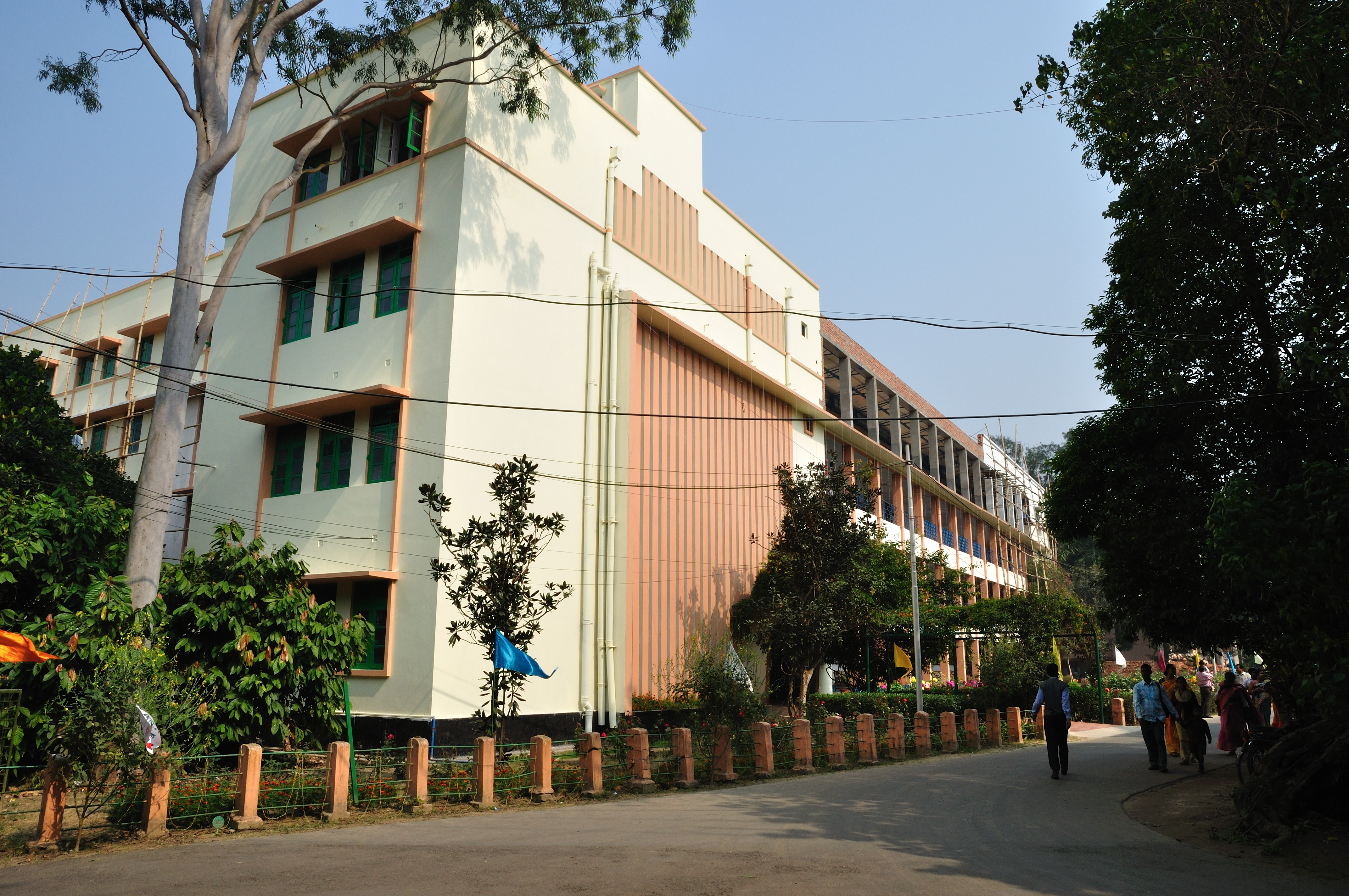 Residential college building at the campus of the Ramakrishna Mission Ashrama (boarding educational institute) at Narendrapur, Kolkata.